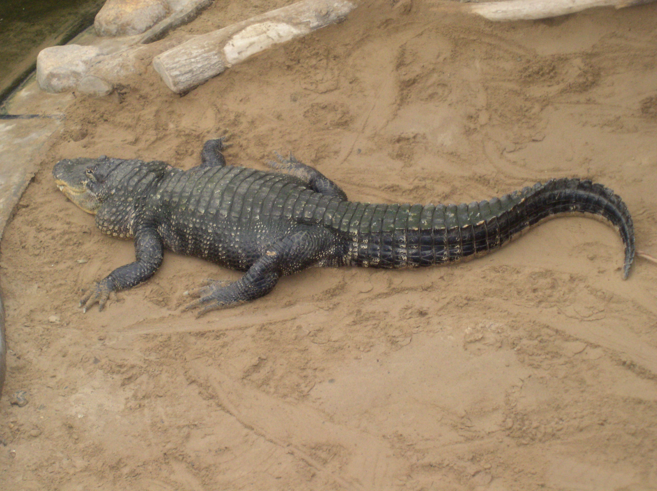 American Alligator (Alligator mississipiensis), taken at the Tierpark Berlin, Germany